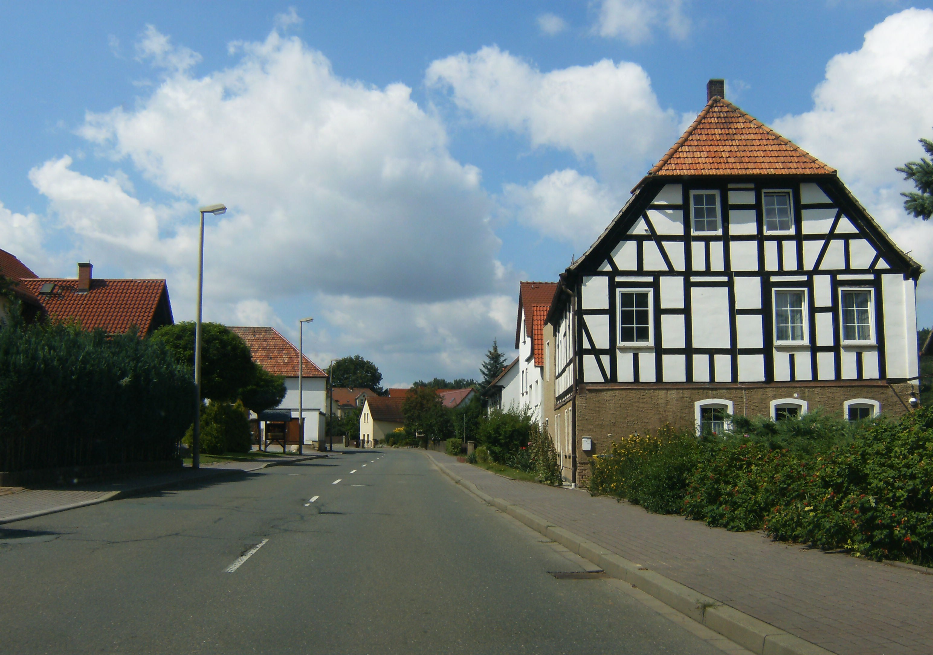 Gera Windischenbernsdorf high street.